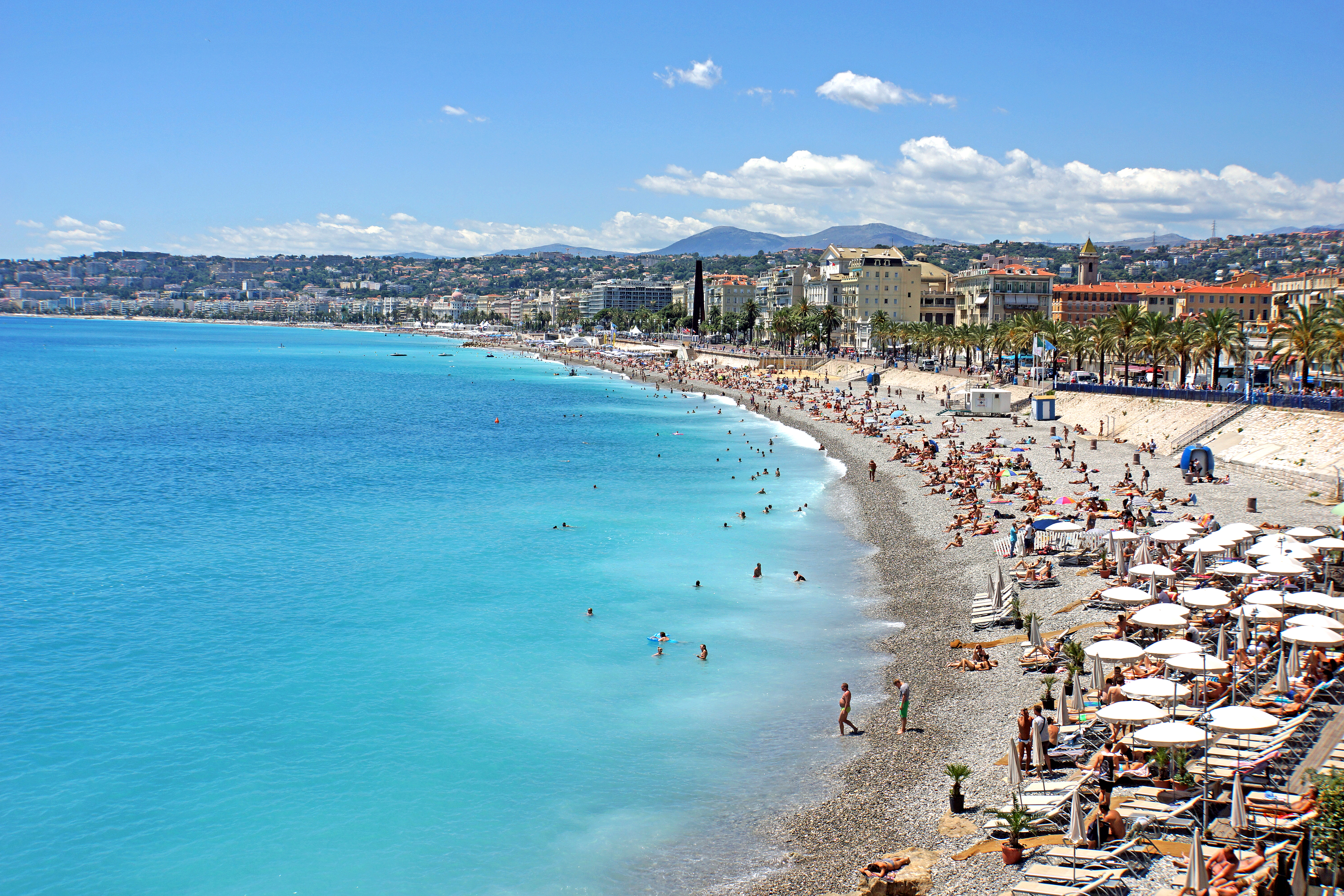 PLEASE, NO invitations or self promotions, THEY WILL BE DELETED. My photos are FREE to use, just give me credit and it would be nice if you let me know, thanks. Nice is the largest city on the French Riviera.